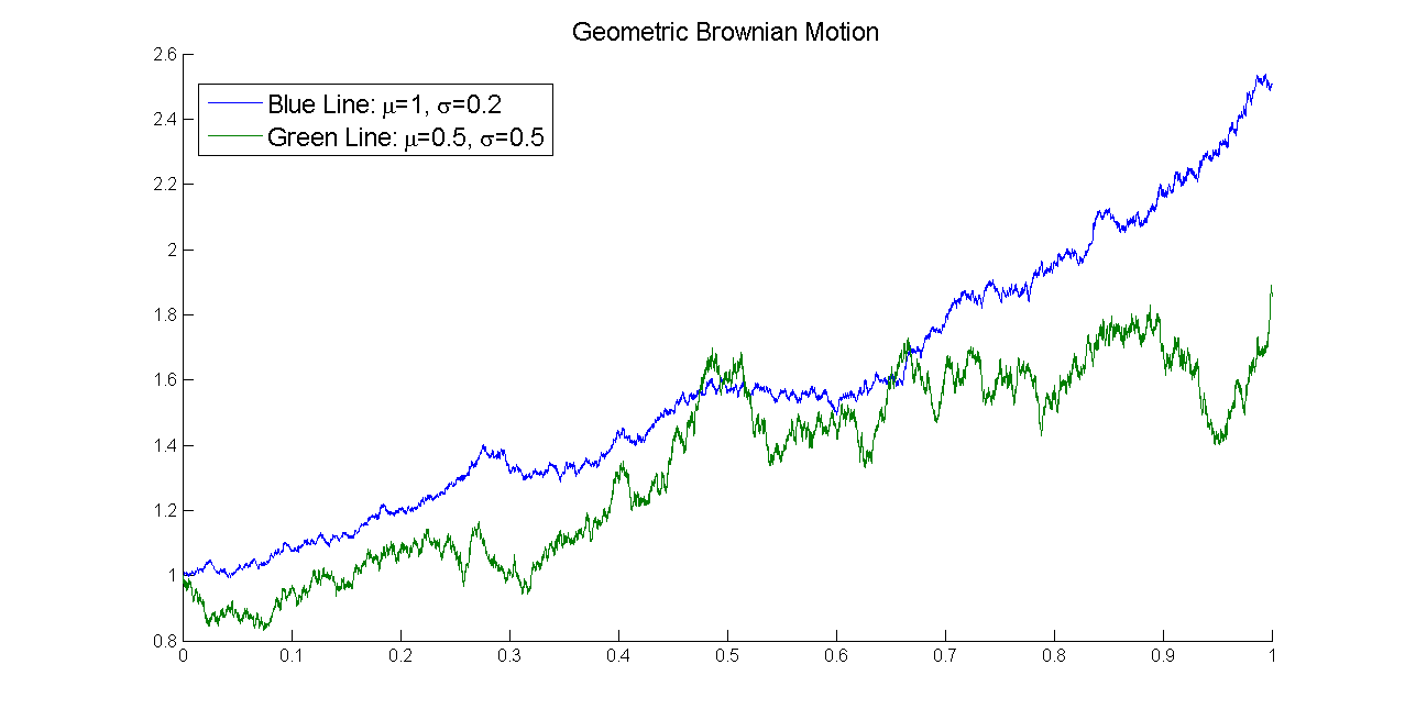 Two sample paths of geometric Brownian Motion. Created using MATLAB.